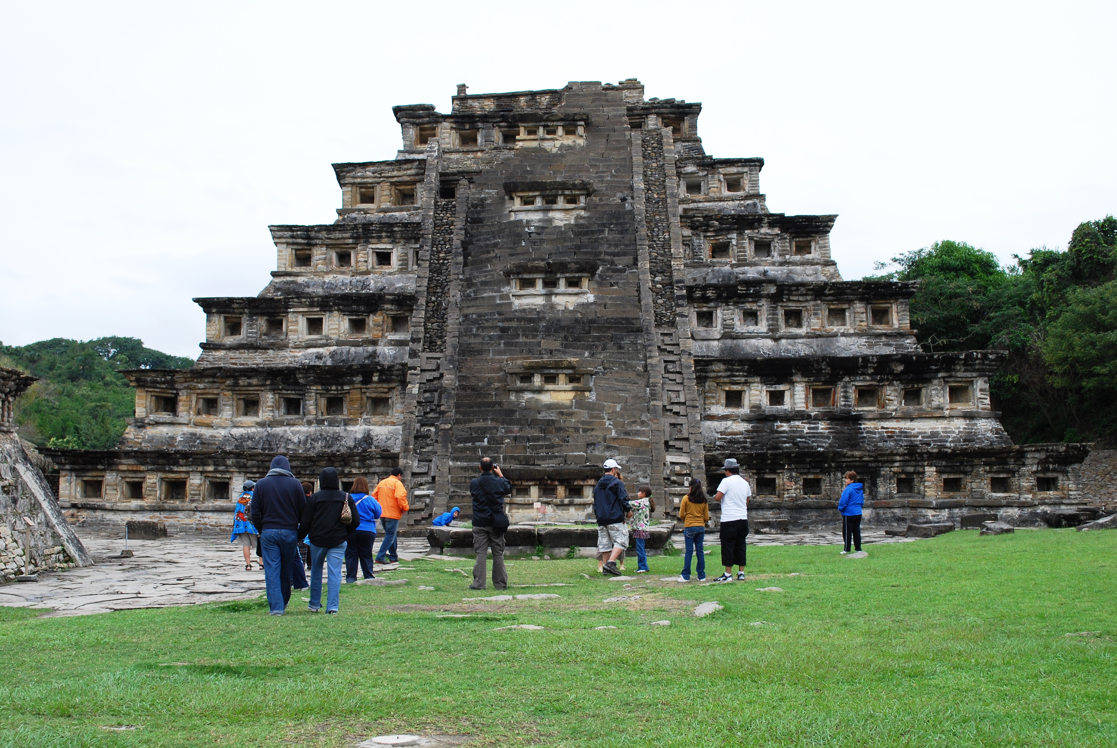 Pyramid of the Niches at Tajin, Veracruz, Mexico